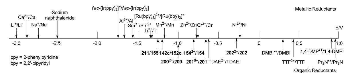 Redox potentials list